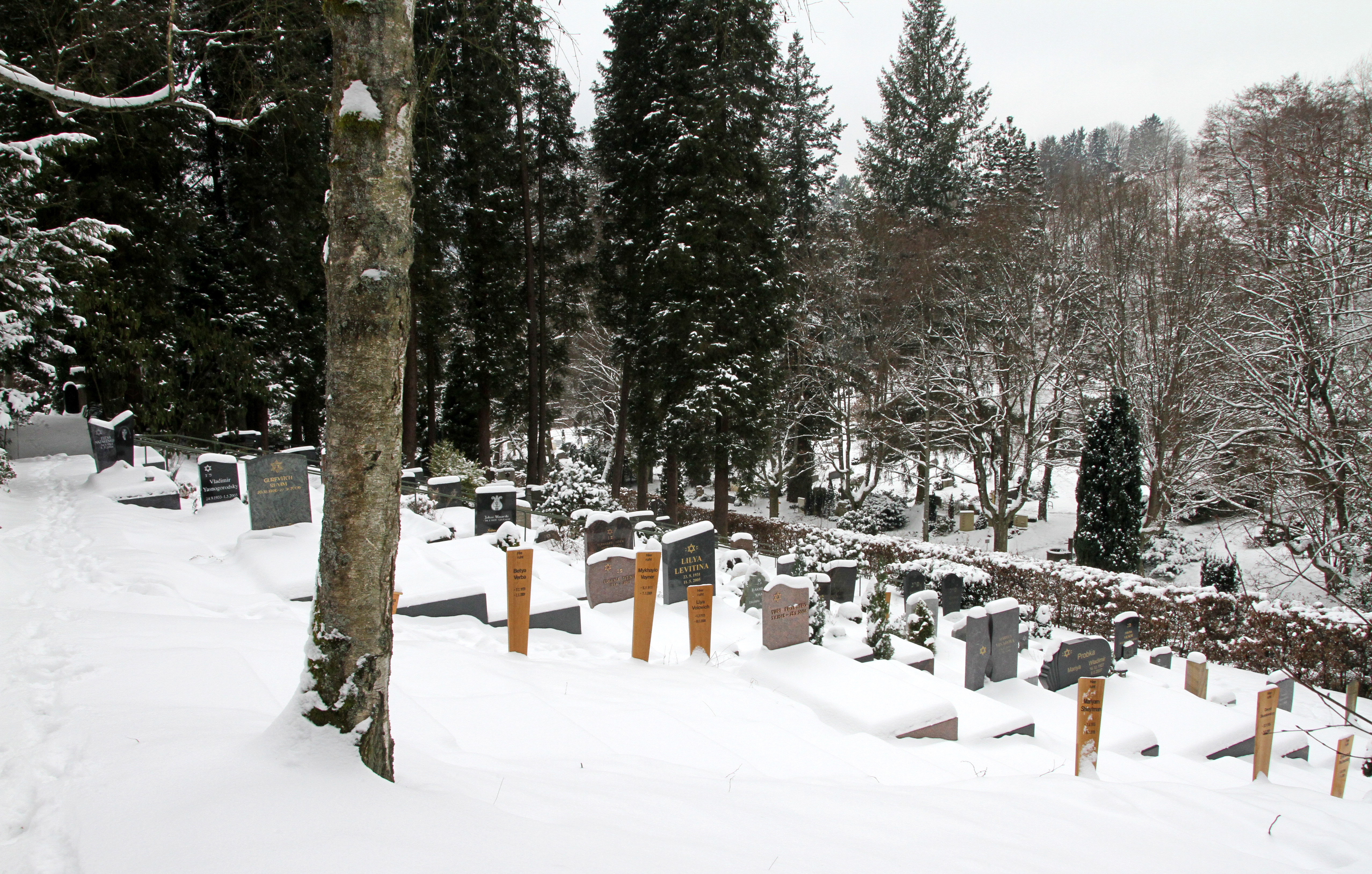 Jewish cemetery Baden-Baden-Lichtental, Germany.